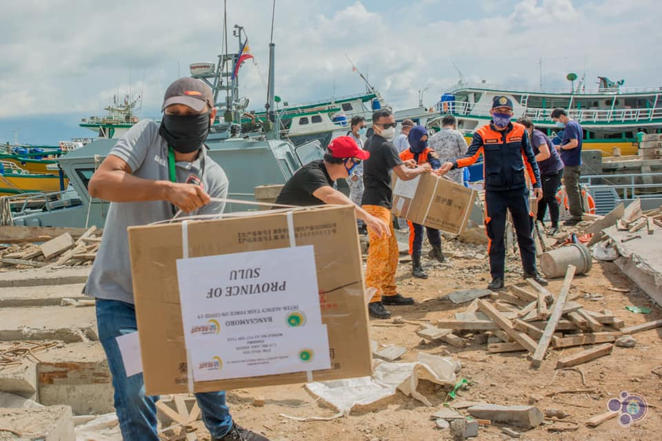 Through the help of the Philippine Navy, essential PPEs and medical supplies arrived in Sulu yesterday (April 10). The supplies were received by Sulu Provincial Disaster Risk Reduction and Management Officer Julkipli Ahijon.